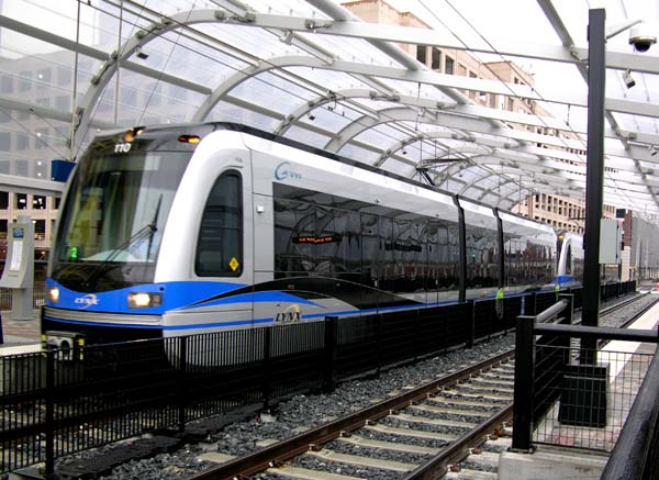 A southbound LYNX light rail train prepares to depart from the Charlotte Transportation Center / Arena station in Uptown Charlotte, North Carolina, USA.